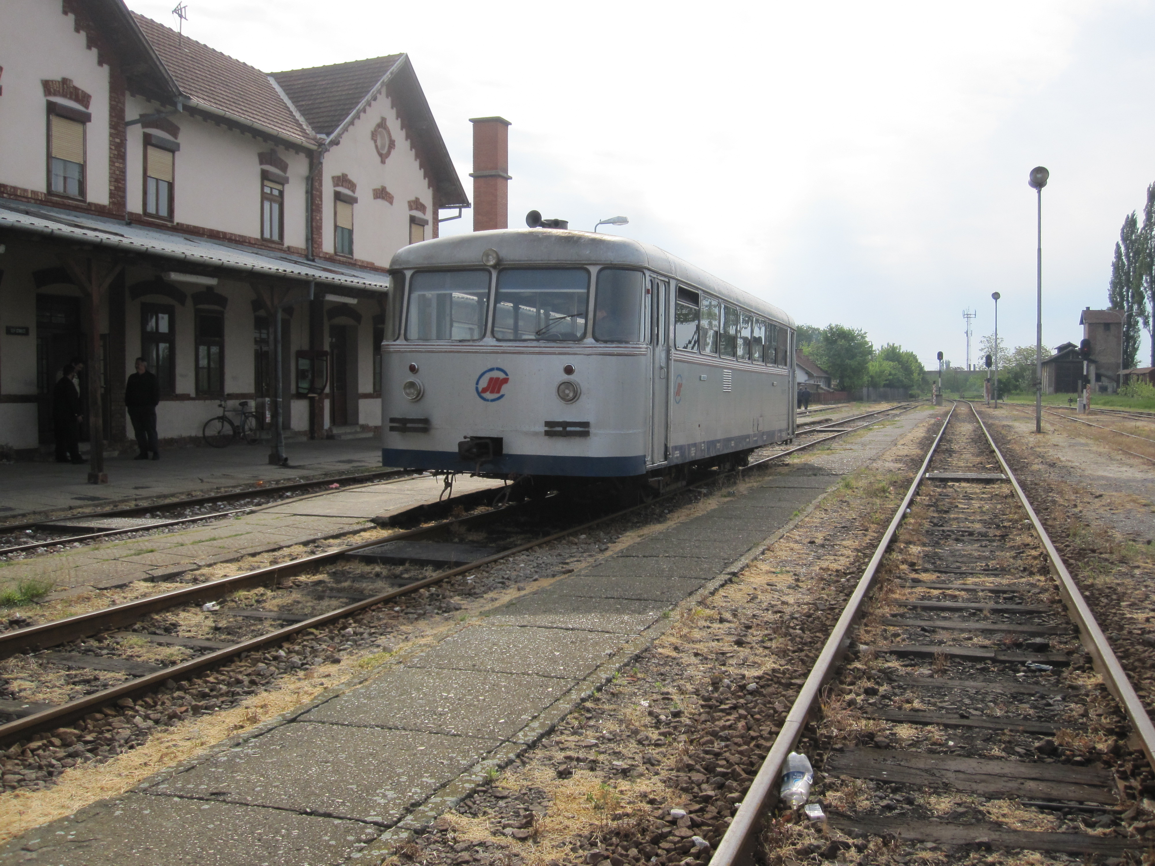 Gosha 812 railbus (Uerdingen 95) in Senta